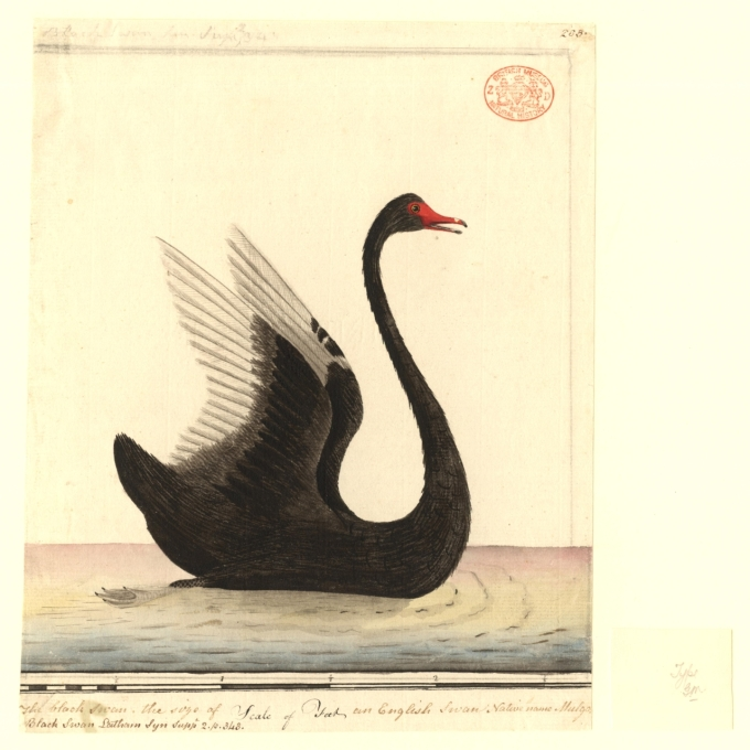 Very early depiction of Cygnus atratus, given the title "Black Swan", native name "Mulgo"